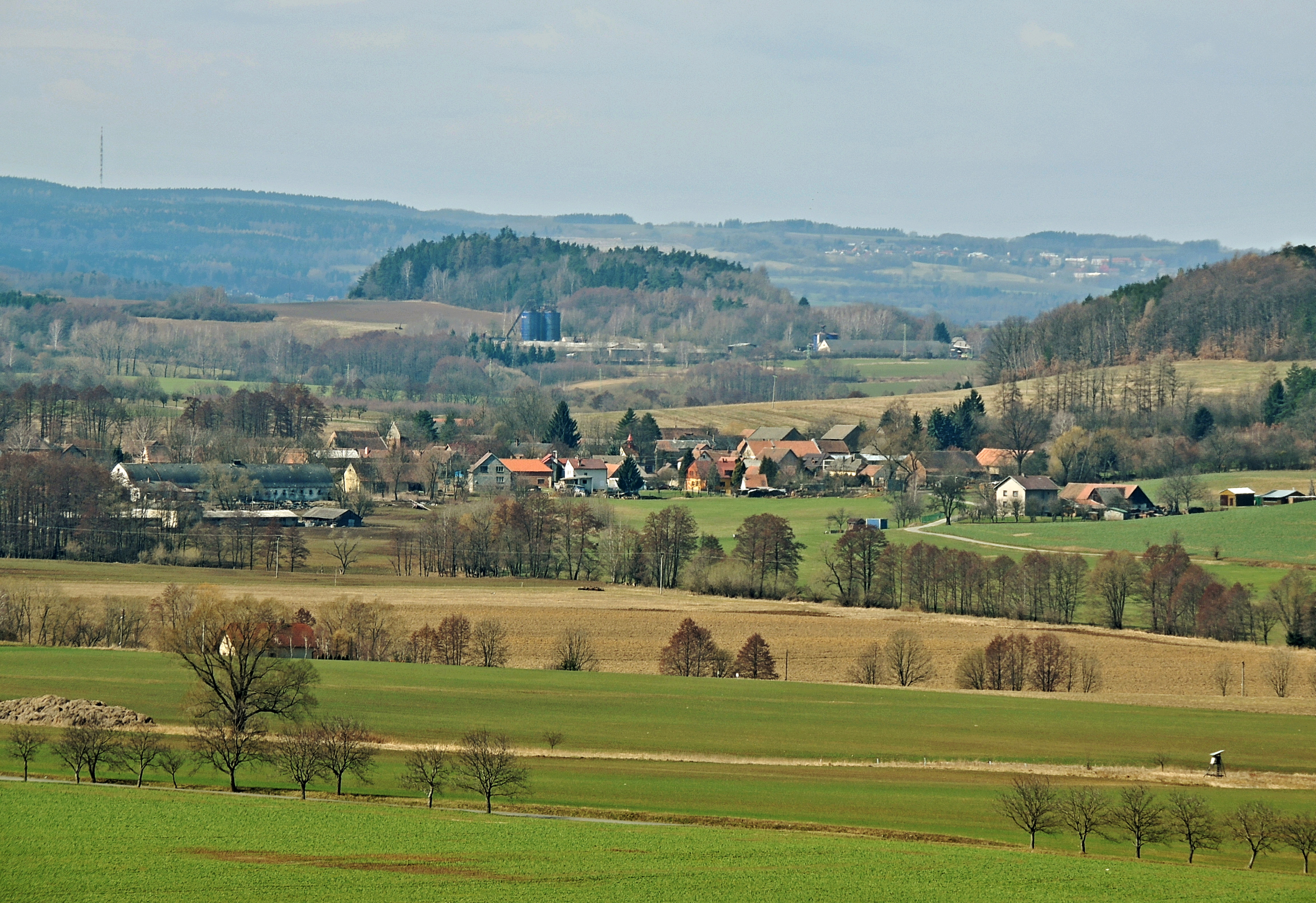 "Skutíčko" is part of the town "Skuteč"; landscape gradually rises to the ridge of the Iron Mountains near village "Nasavrky". Dominates the landscape "Sečská" Highlands is a telecommunications tower (182 m) on the hill "Krásný" (614 m above sea level). Photo location: Czechia, Pardubice Region, Skuteč town.